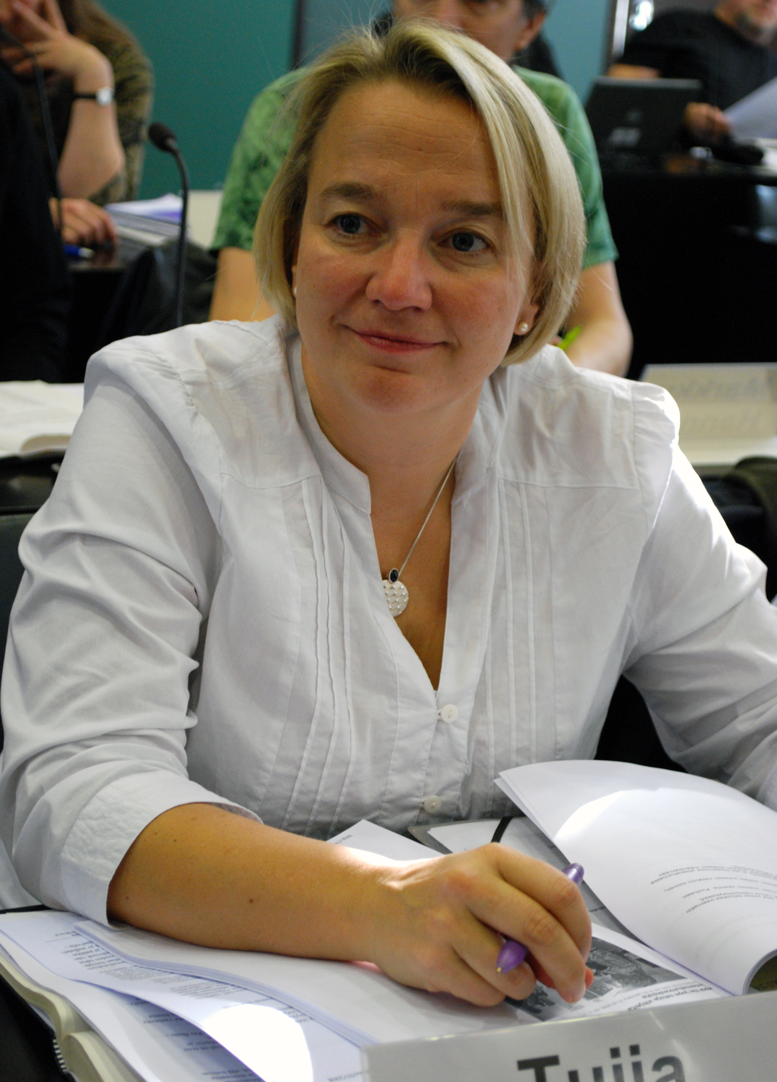 Minister of Justice Tuija Brax at Greens' party council meeting in Kotka, Finland.